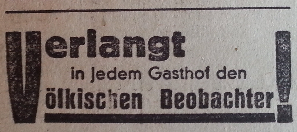 Self-promotion in the NSDAP newspaper Völkischer Beobachter, South German edition, 25 and 26 February 1933